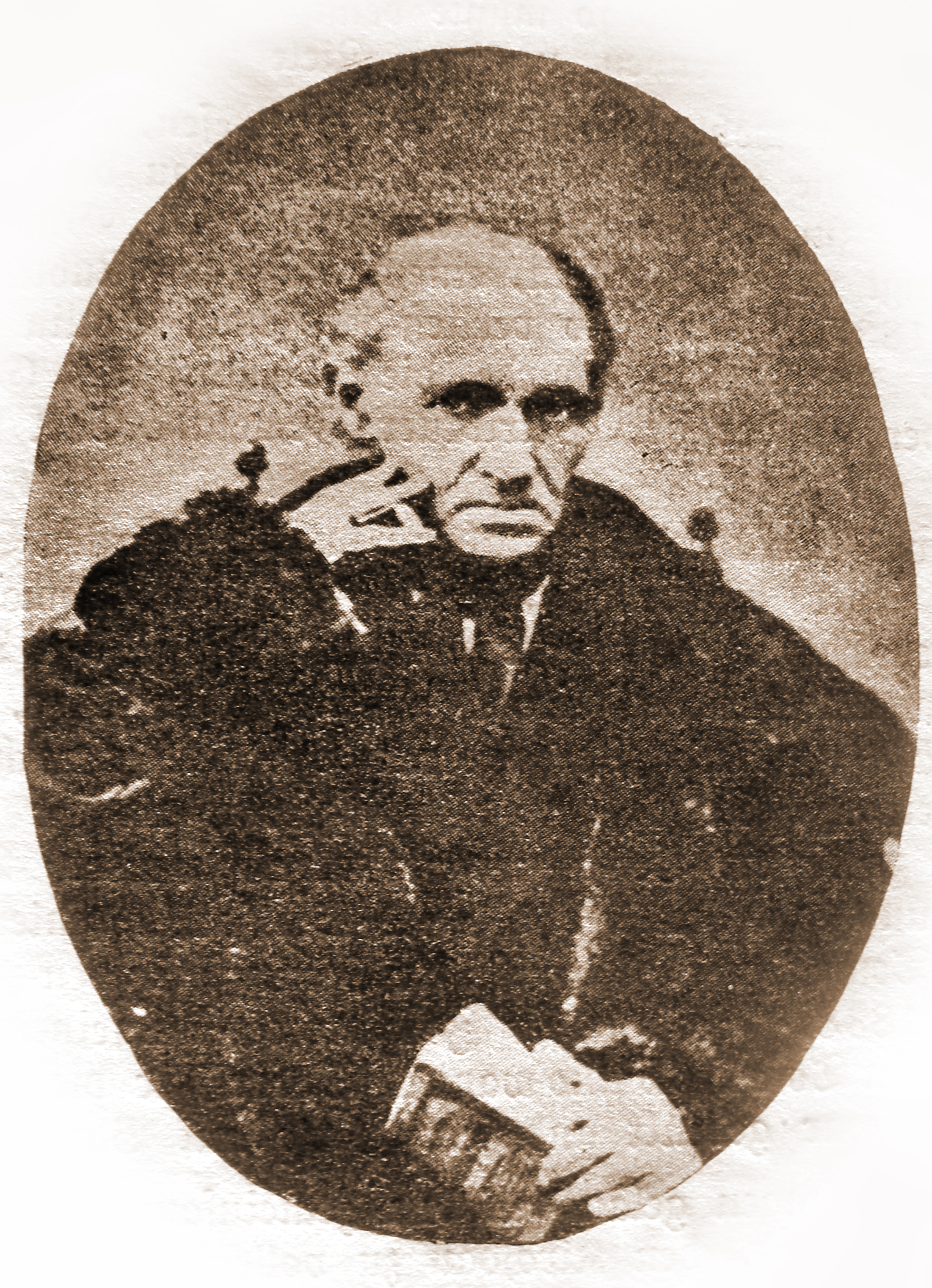 Jan Jacob Benni (1800-1863), the first Protestant pastor in Tomaszow Mazowiecki